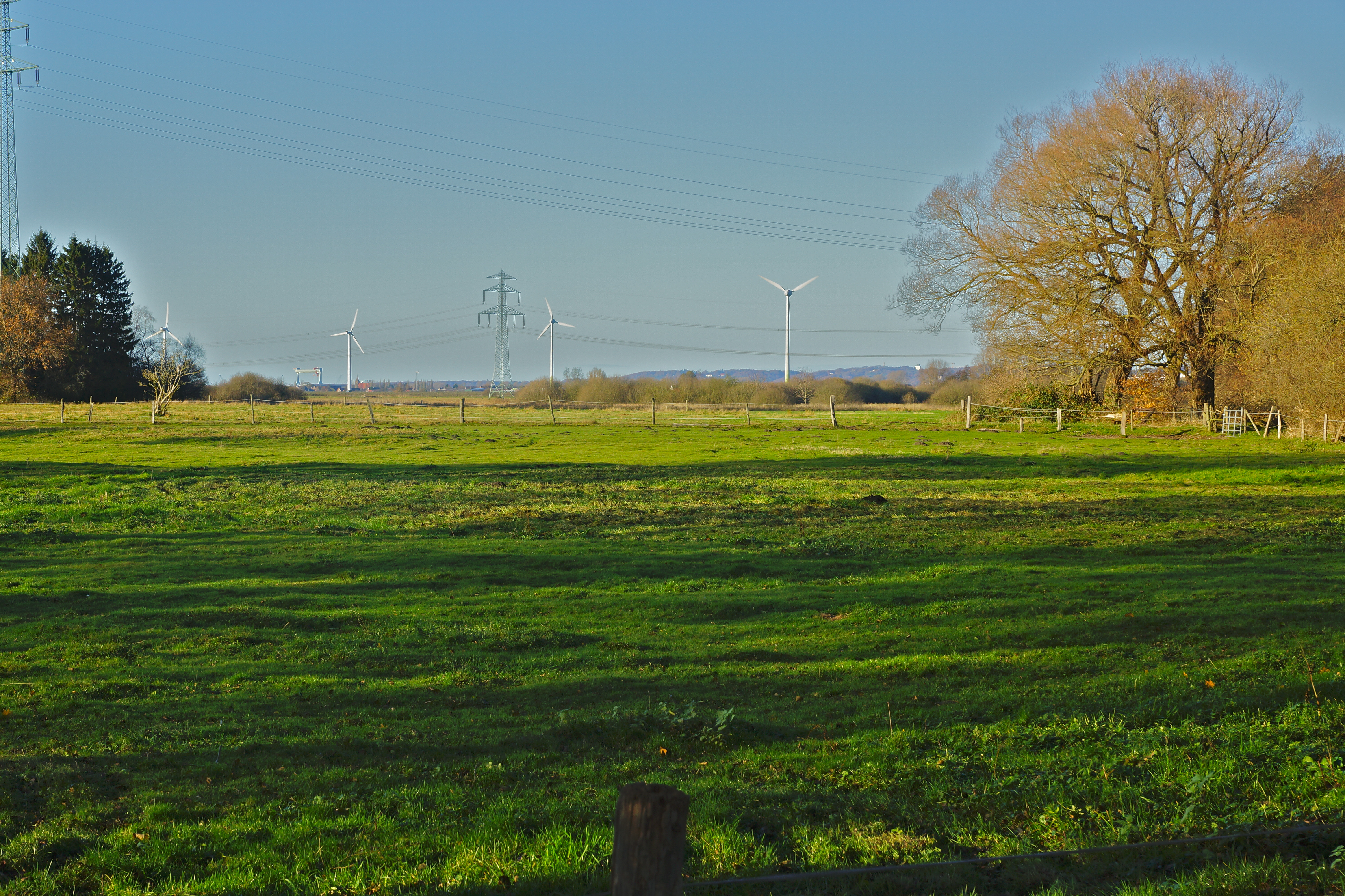 Hamburg (Neugraben), Germany: The natural reserve Moorgürtel